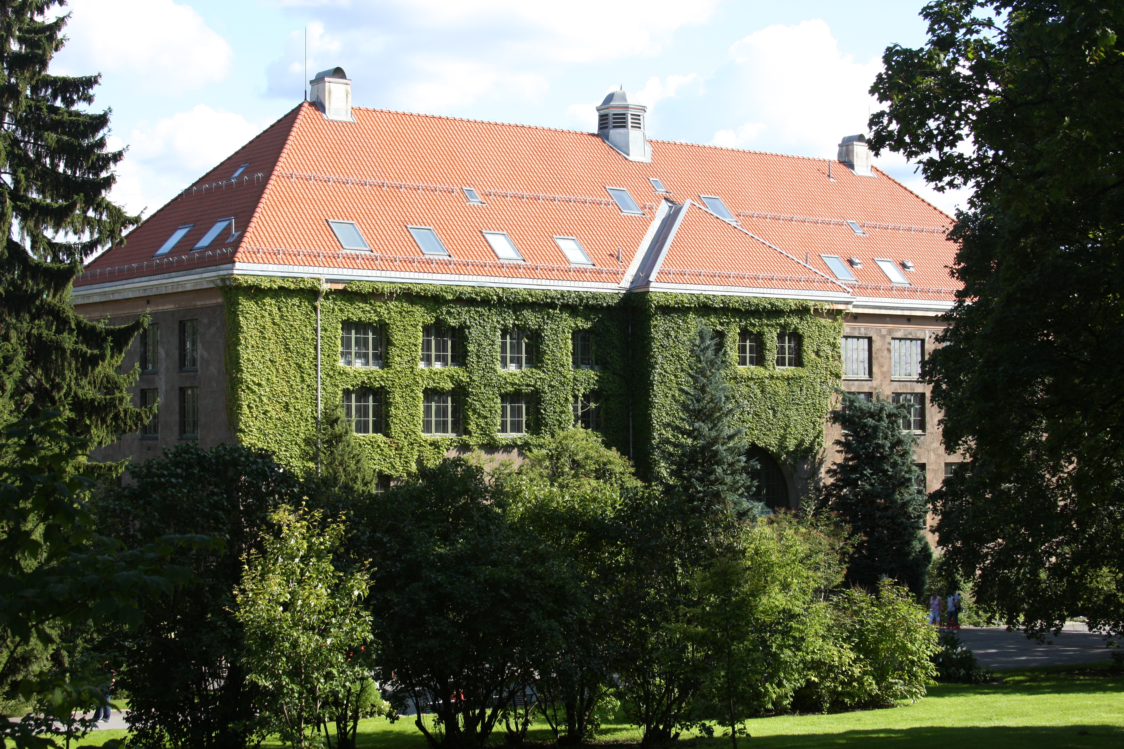 Botanisk Museum (Bothanical Museum), Oslo (Norway).